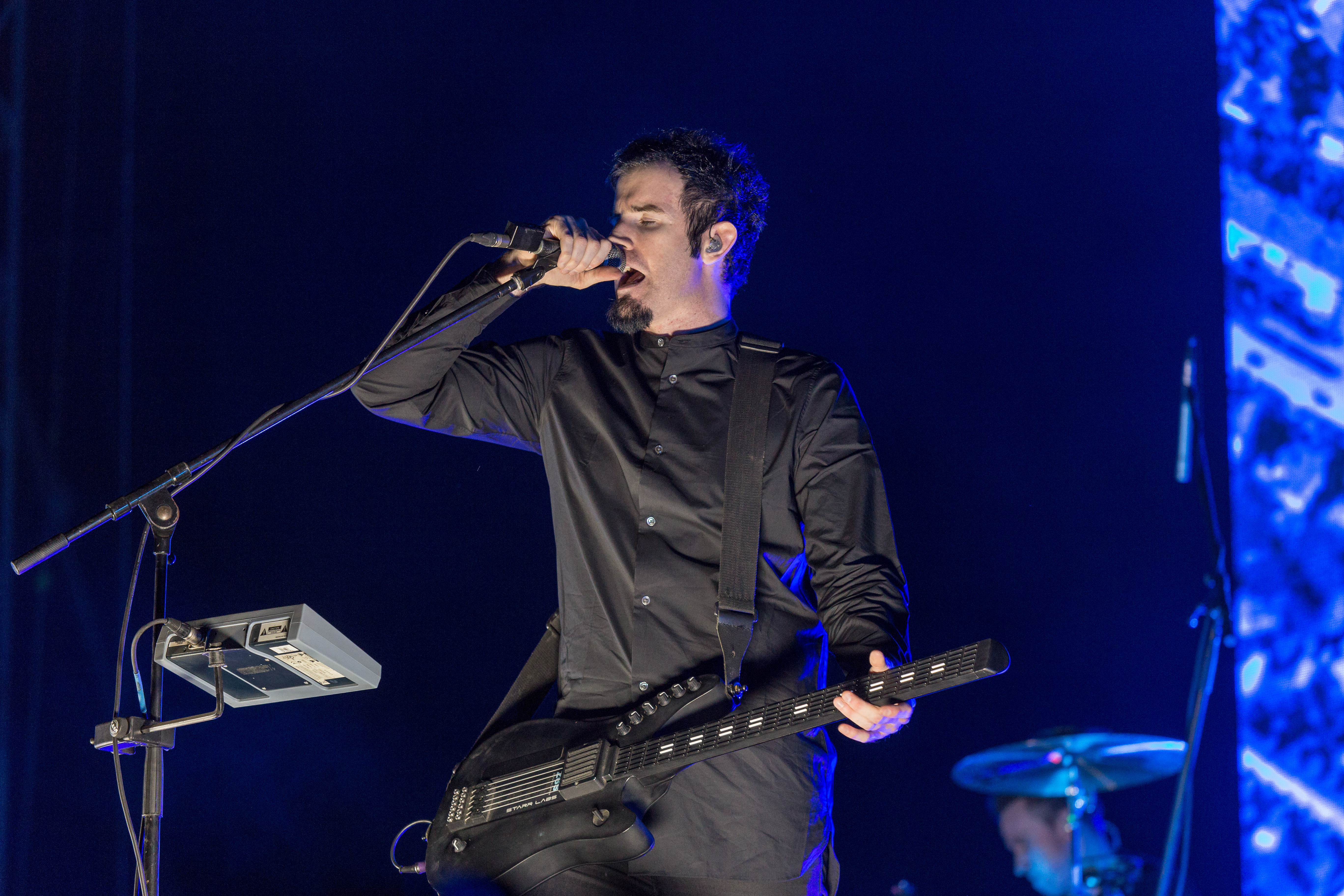 Nova Rock 2017 Rob Swire from Pendulum at the Nova Rock 2017